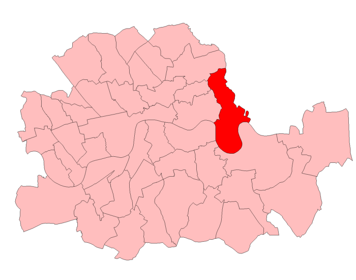 A map of Poplar constituency within the London County Council area, as it existed from 1950 to 1974.